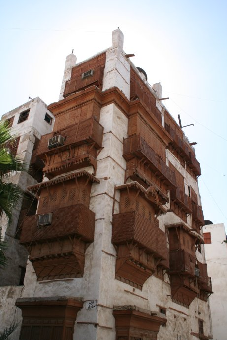 Traditional house in Al Balad, Jeddah, Saudi Arabia. Photo taken by BroadArrow in 2007.